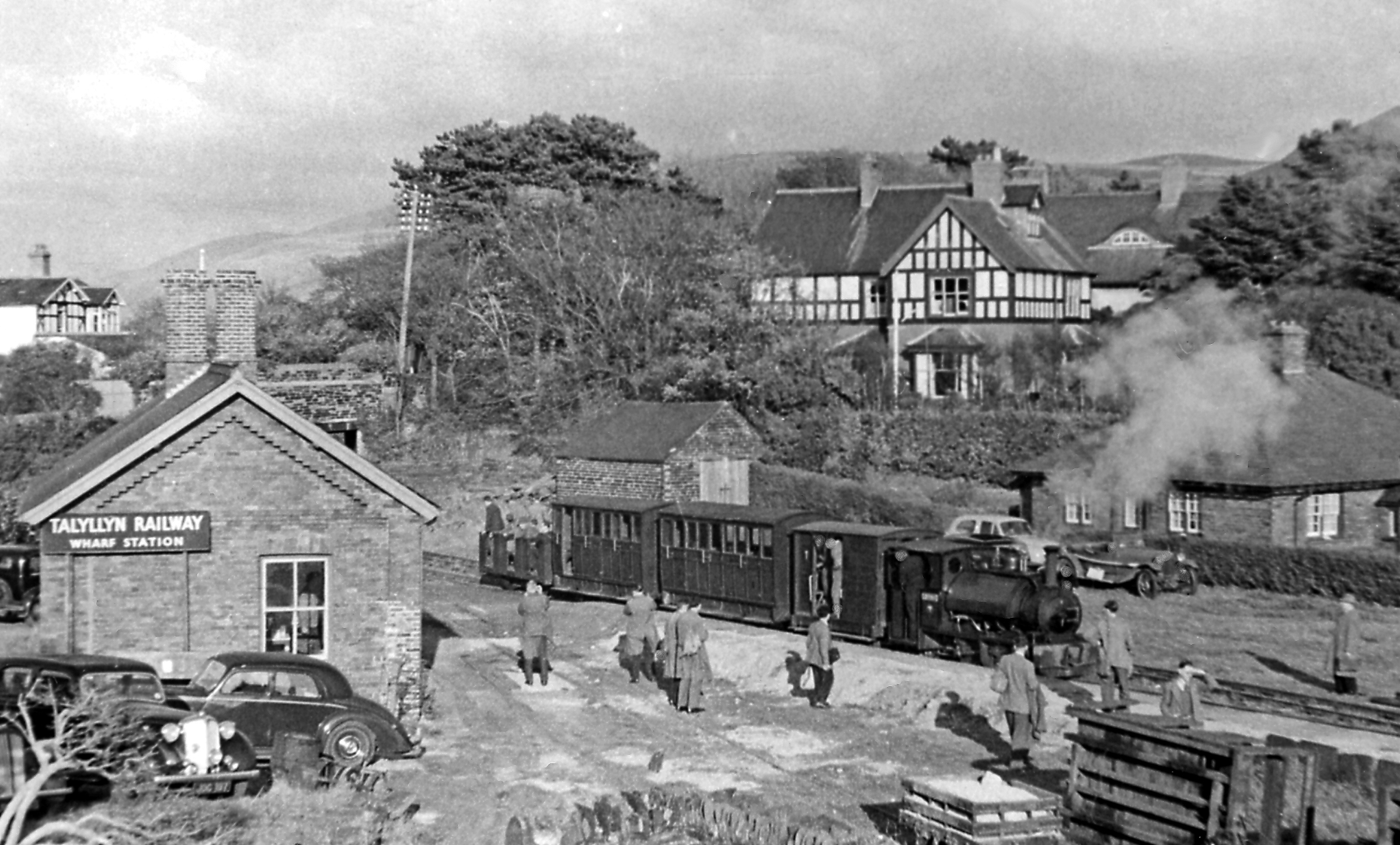 Towyn Wharf station, Talyllyn Railway with train,1953. View eastward, from the A493 bridge, over the terminus of the Talyllyn Railway from - at that time - Abergynolwyn (away to the left). For details, see SH6203 : Brynglas Station). The train is headed by 0-4-2T No. 3 'Sir Haydn'.